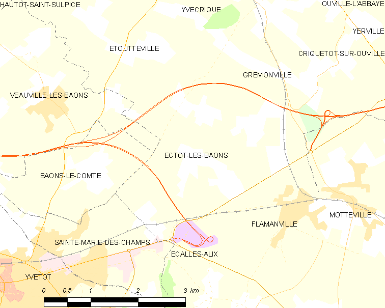 Map of French municipality Ectot-lès-Baons